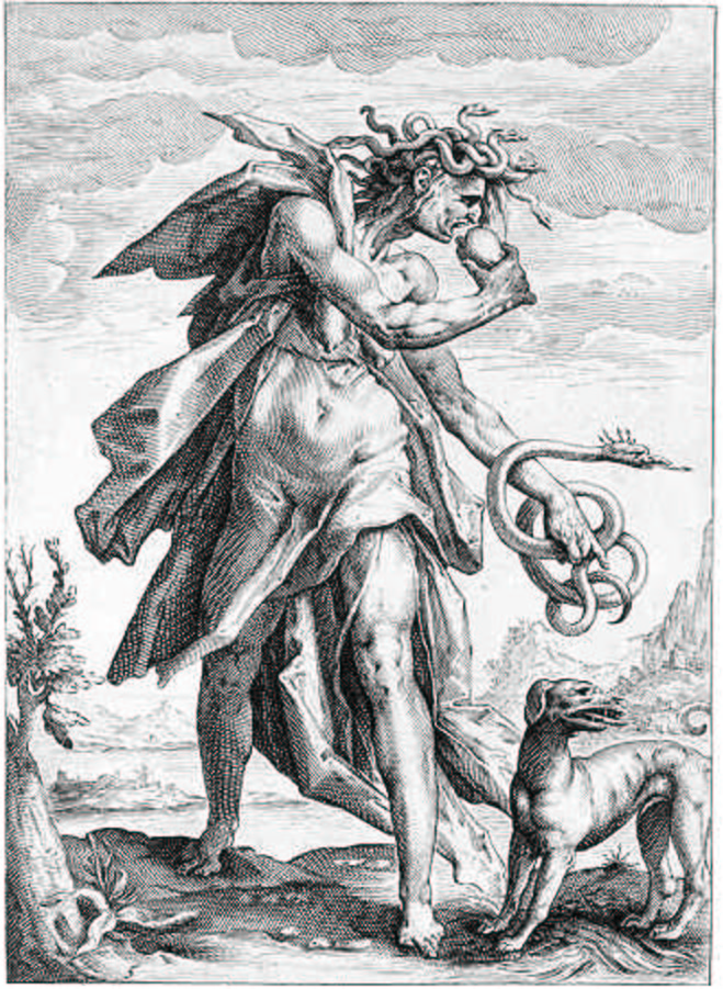 (Portuguese) Gravura: Envidia (Inveja). {English} Envy, from Jacob Matham's series The Vices, plate #5. 21.43 x 14.29 cm.